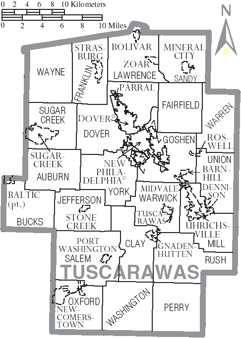 Map of Tuscarawas County, Ohio, United States with township and municipal boundaries